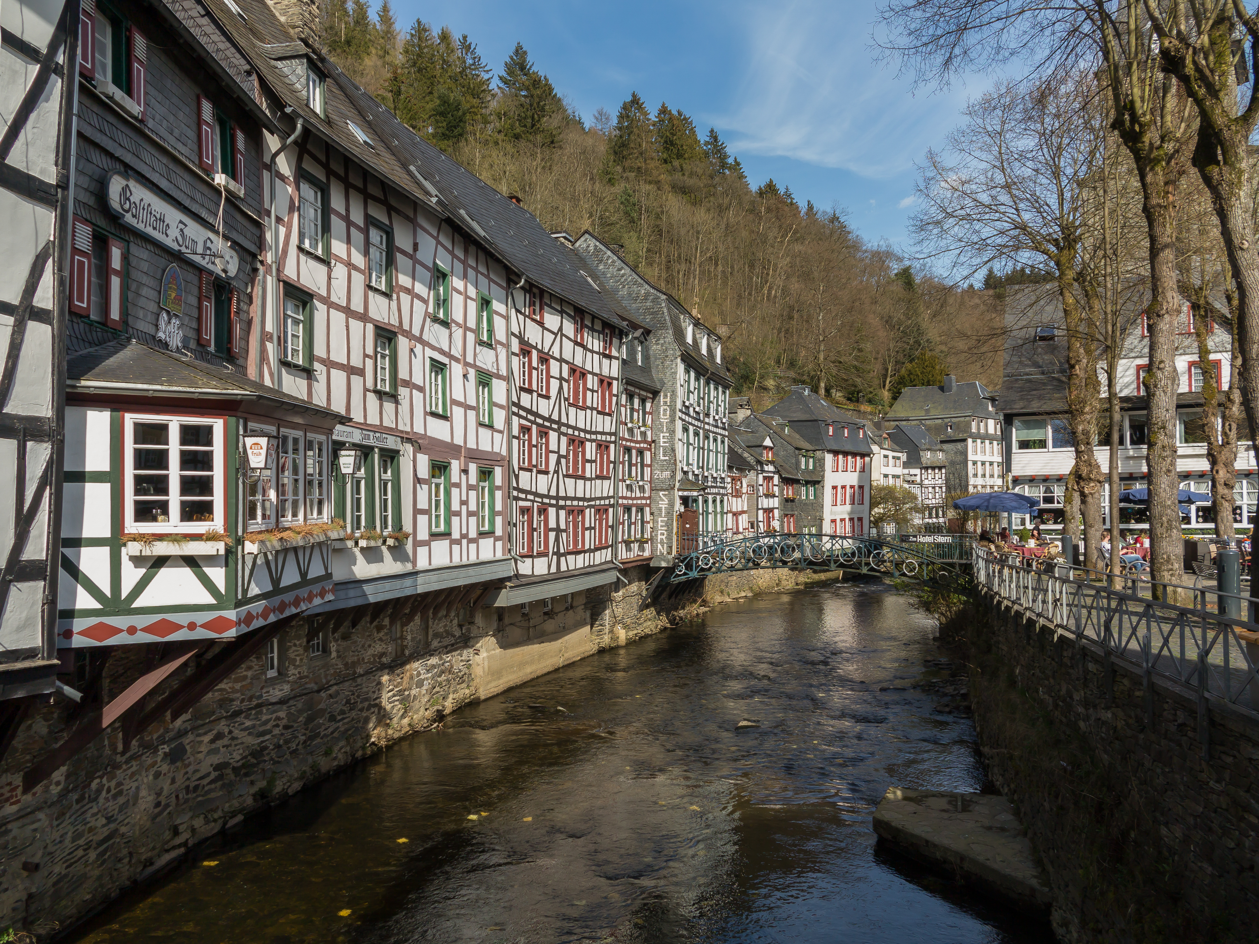 Monschau, view to timber houses from bridge across die RurThis is a photograph of an architectural monument., no. 80